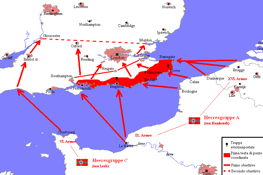 Operation Sealion